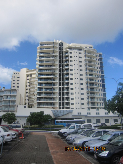 Cairns tallest apartment tower the 17 level Piermonde.